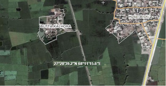 Picture from Wikimedia of village of larkana